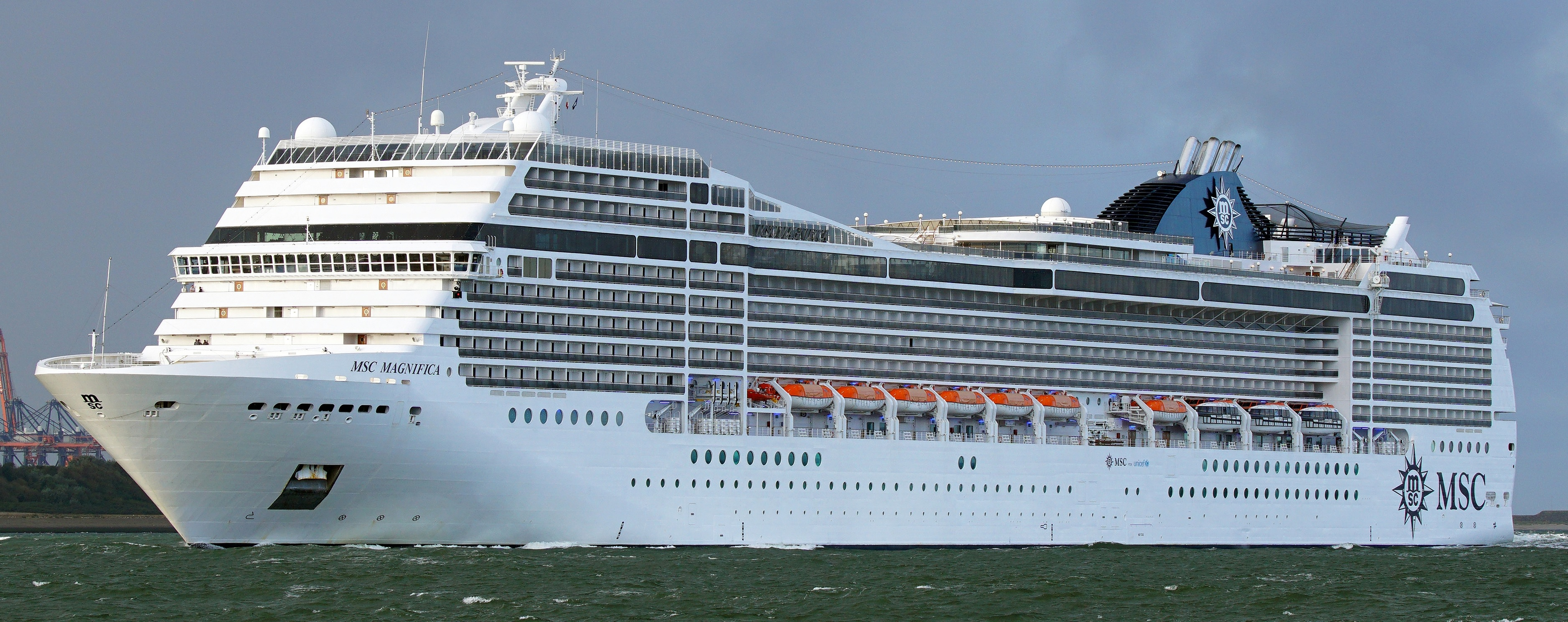 MSC Magnifica at the Nieuwe Waterweg in Rotterdam, Netherlands on 20 October 2014.